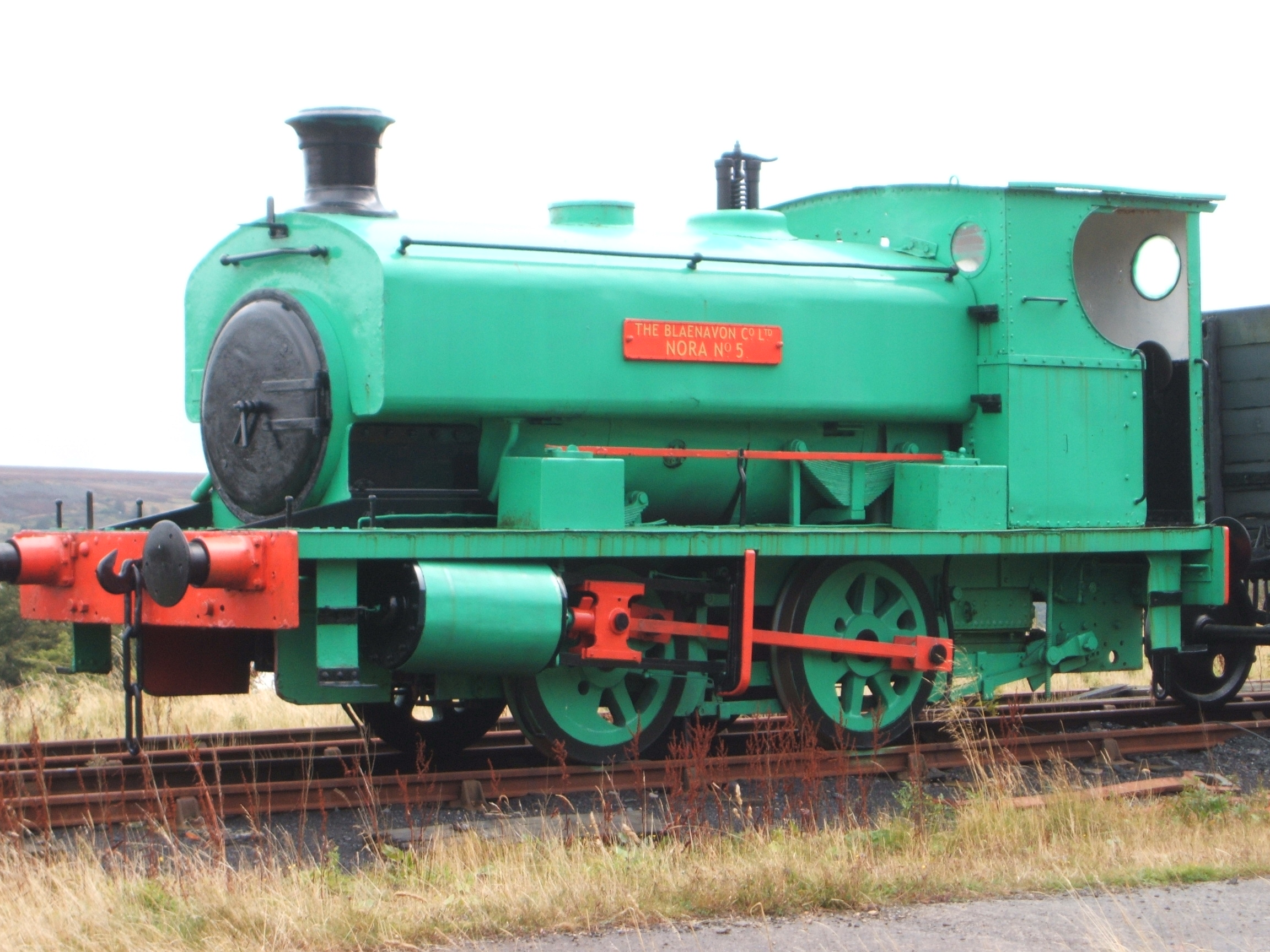 Andrew Barclay 0-4-0st Nora No.5 at the Big Pit Blaenavon